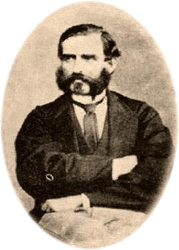 Dr. Luis Cordero Crespo ca. 1868.